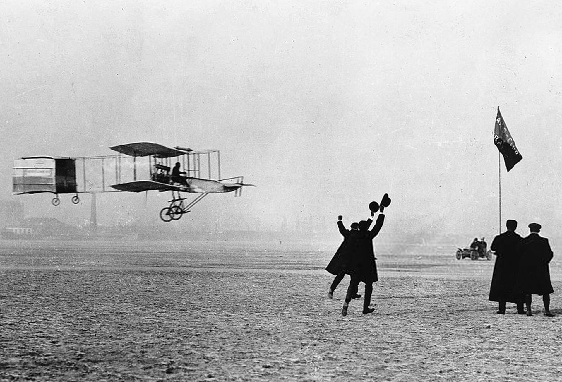 On Jan. 13, 1908, French aviator Henri Farman won with his Voisin-Farman I the Grand Prix d’Aviation for the first circular flight of more than 1 km (0.6 mile).